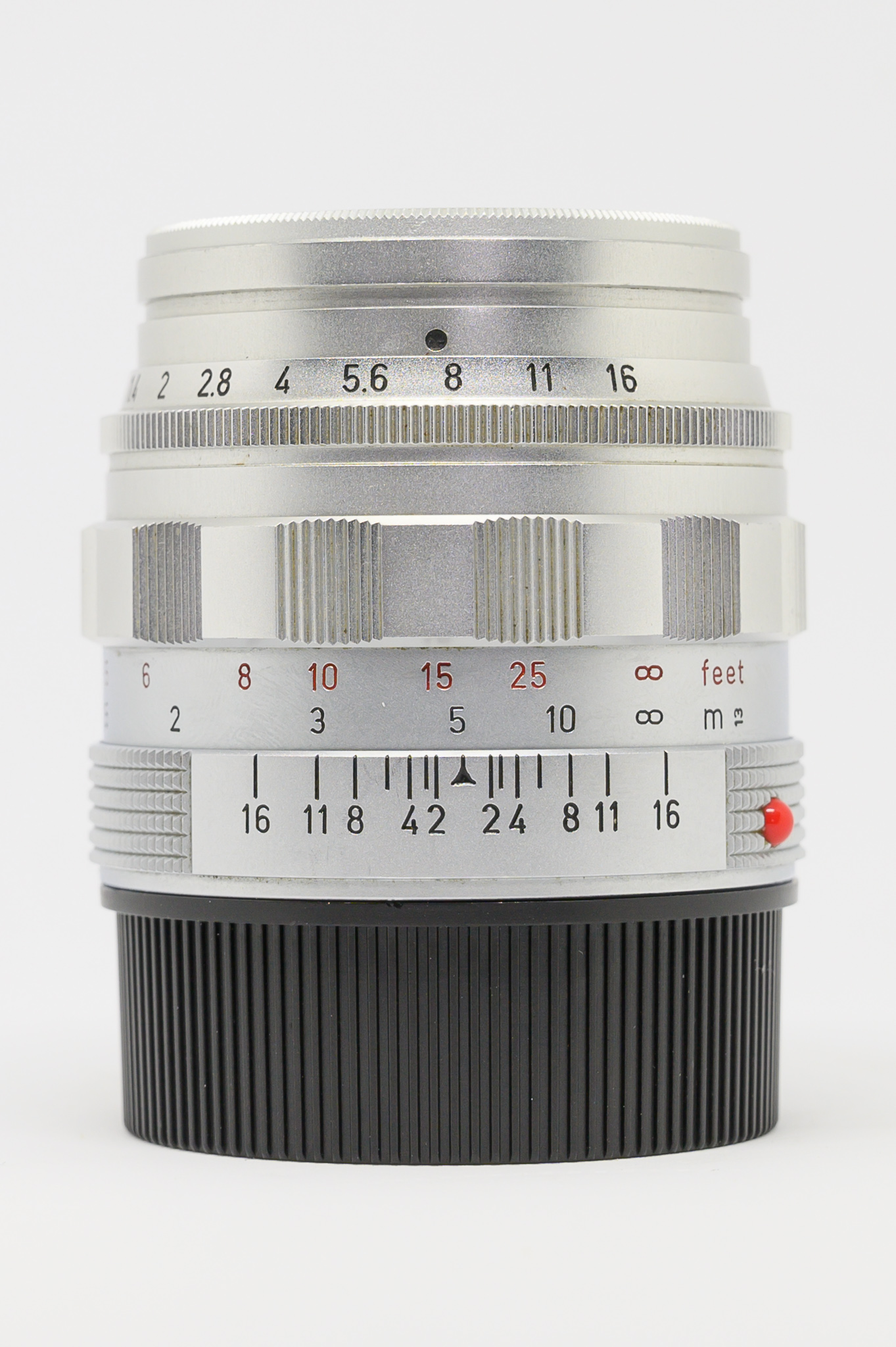 Leica 50mm f-1.4 Summilux-M II (1962) Chrome Rangefinder lens